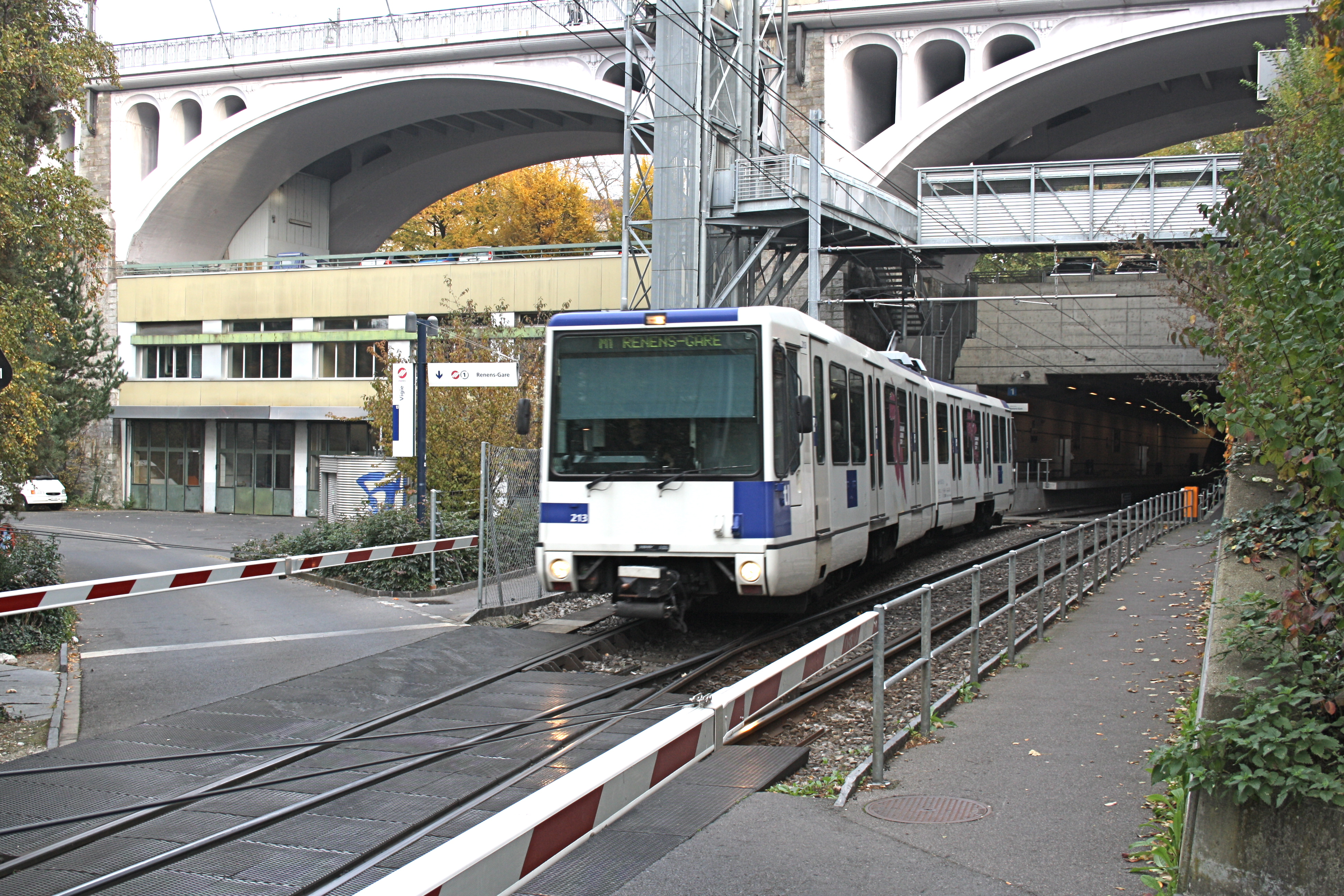 Metro 1 Lausanne